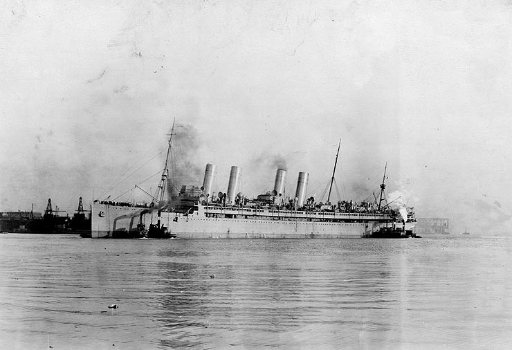 USS Mount Vernon ID-4508 at Boston, Massachusetts.